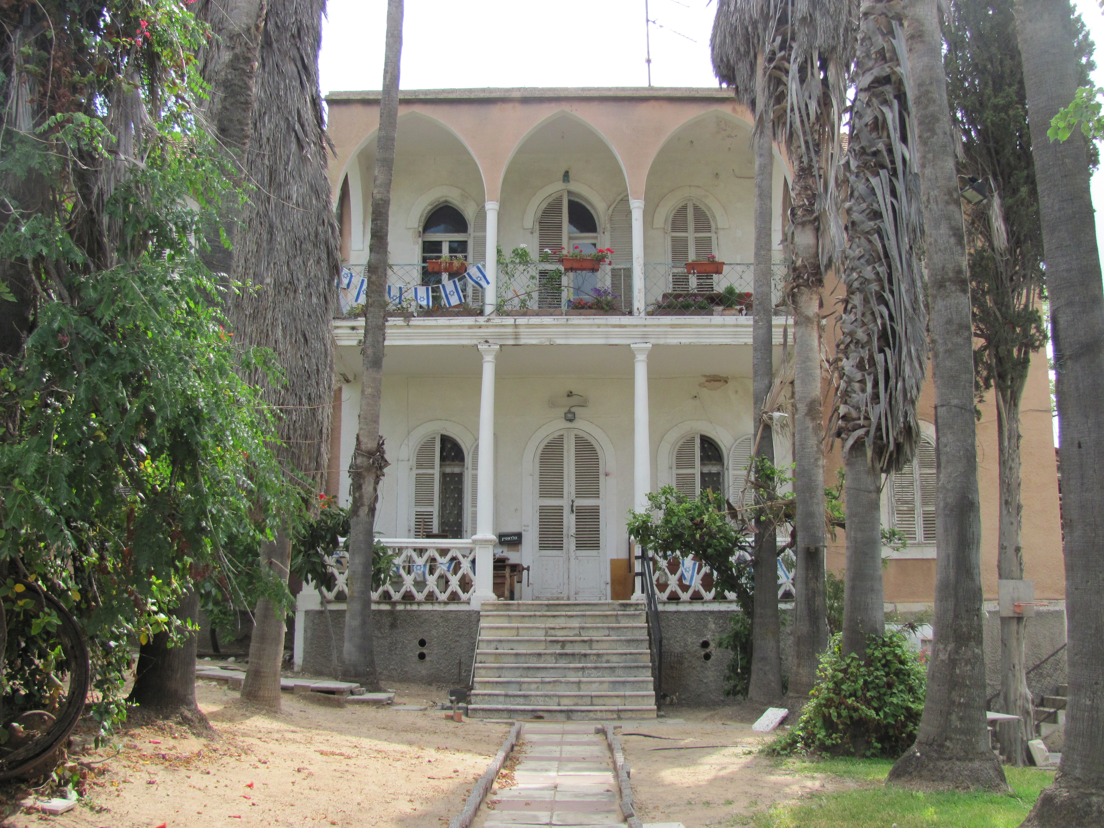 Zax house in Rehovot.